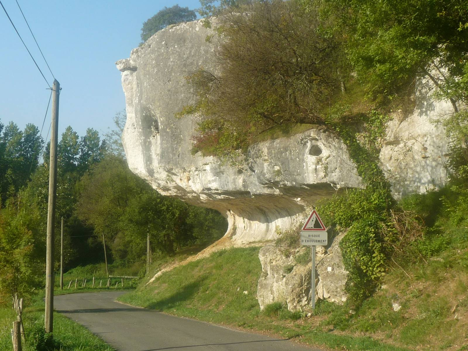 rock (hanging cliff) in the valley of Eaux-Claires down Puymoyen, Charente, SW France